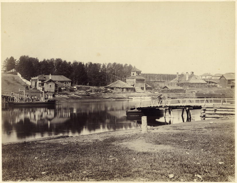 Usolye-Sibirskoye Усолье-Сибирское.